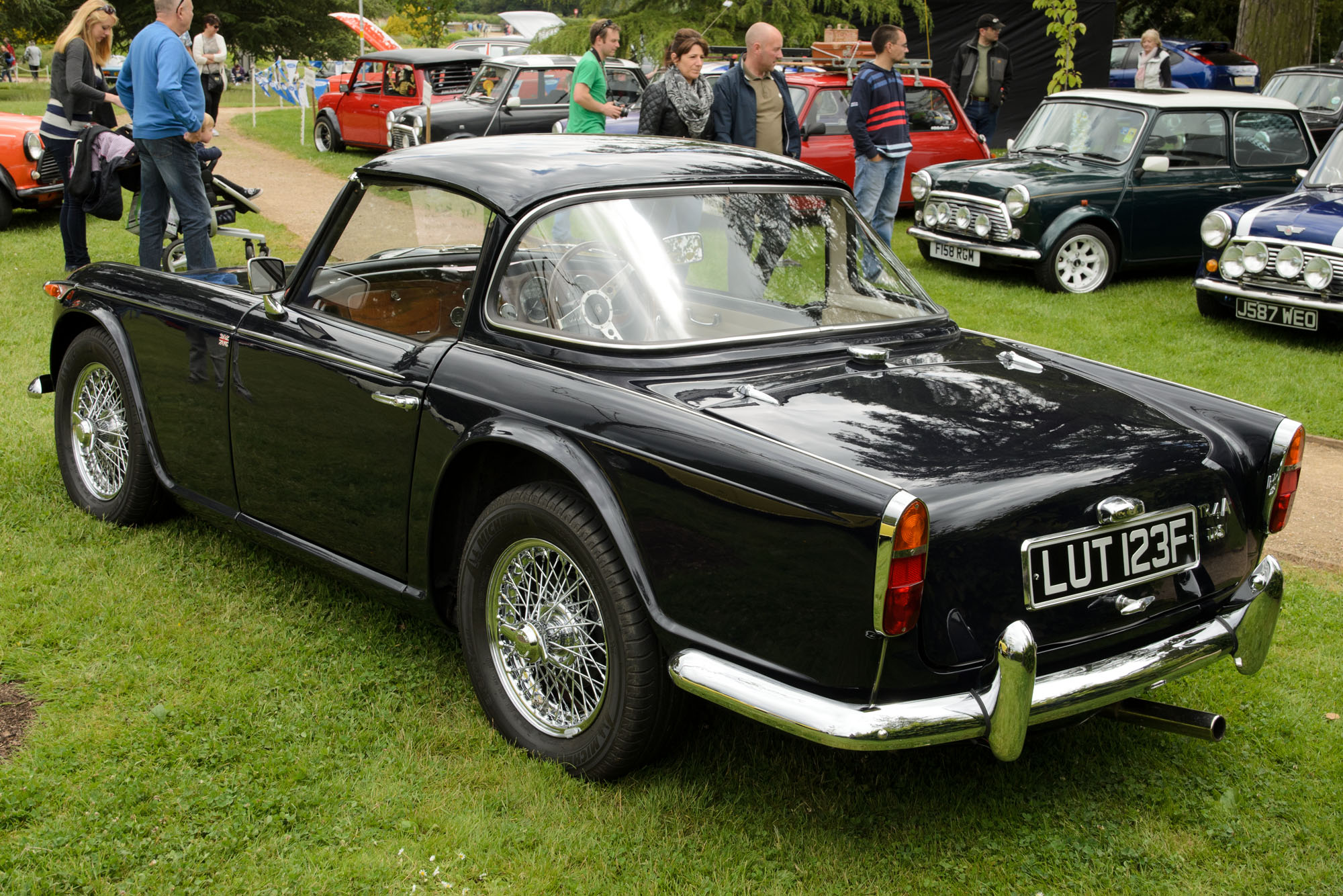 Trentham Gardens Classic Car Show 21/06/2015